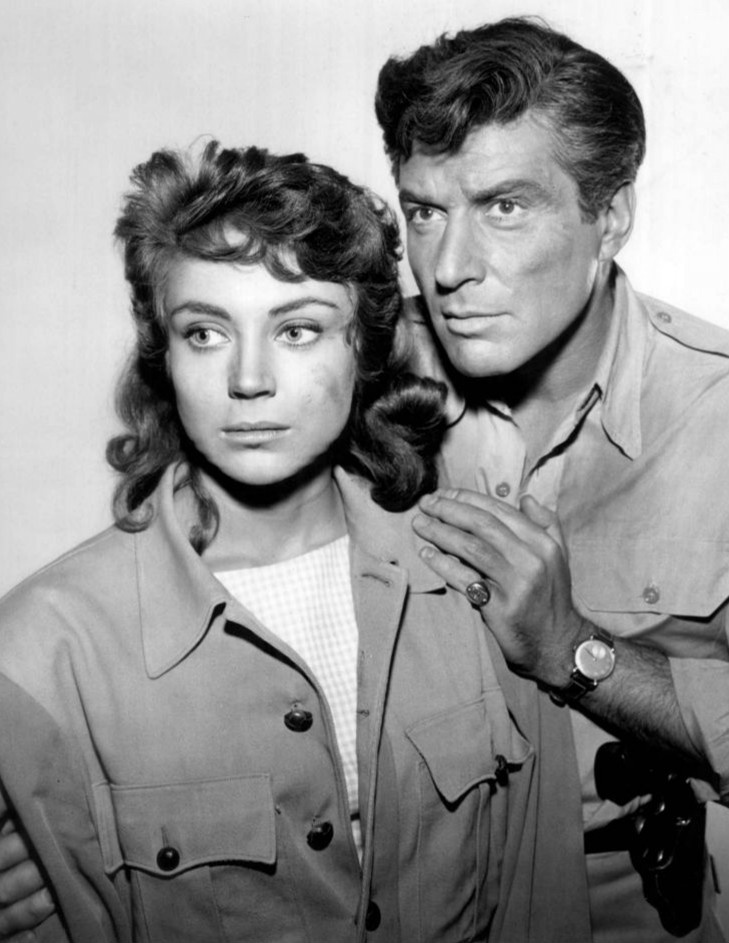 Photo of Efrem Zimbalist, Jr. as Stu Bailey and guest star Andra Martin. Martin plays a noblewoman from a small country Bailey is hired to bring back to her homeland. Political factions there opposing this try to prevent it by abandoning them both in the desert.